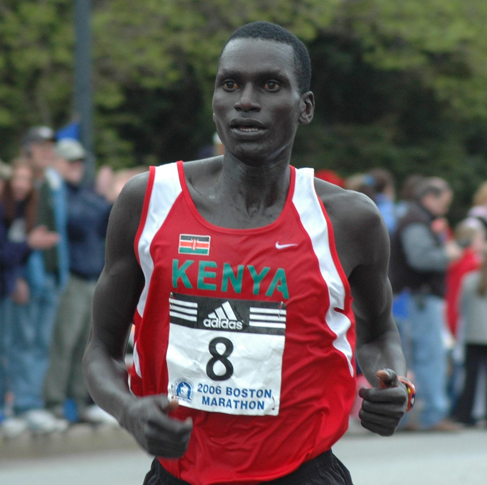 Robert Cheruiyot in 2006 Boston Marathon as he passes through Wellesley Square.